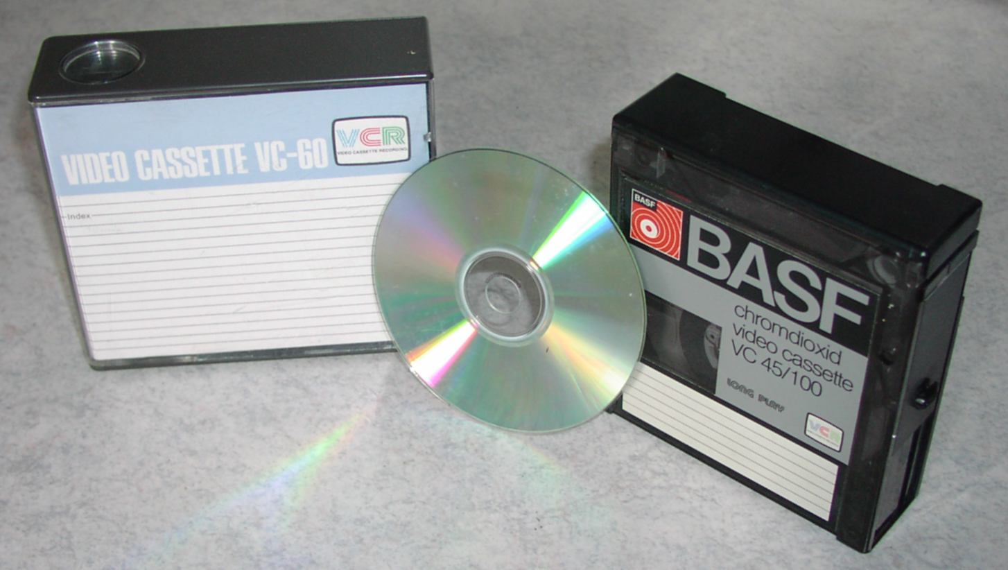 VCR (Video Cassette Recording) format videocassettes, with a CD for scale.